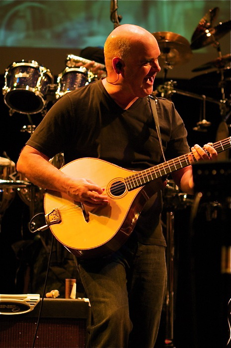 Simon Emmerson performing with The Imagined Village in Barking (London) in late 2008 © Mark A Bennett